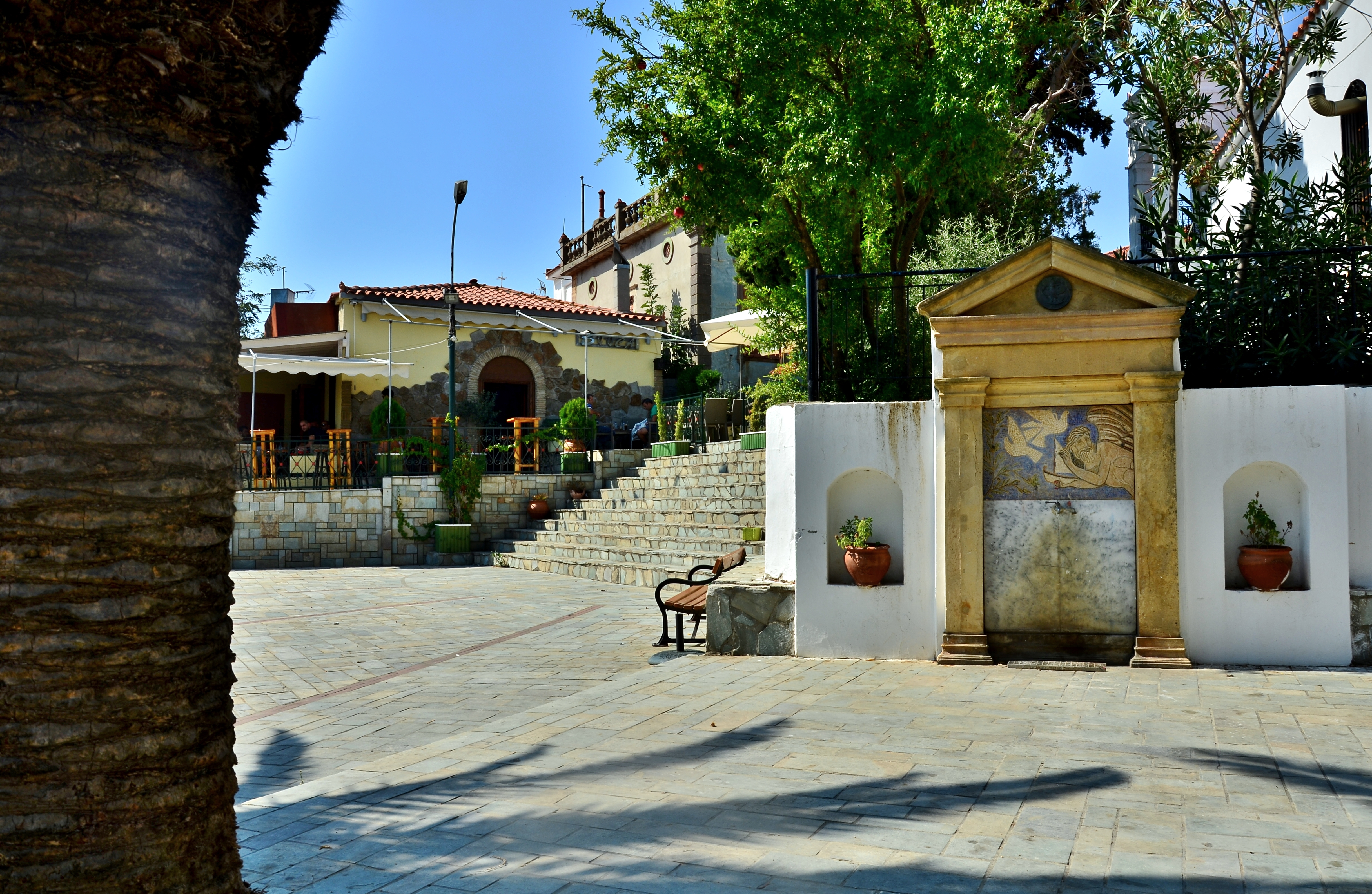 Fountain in Kontopouli, Lemnos, Greece.